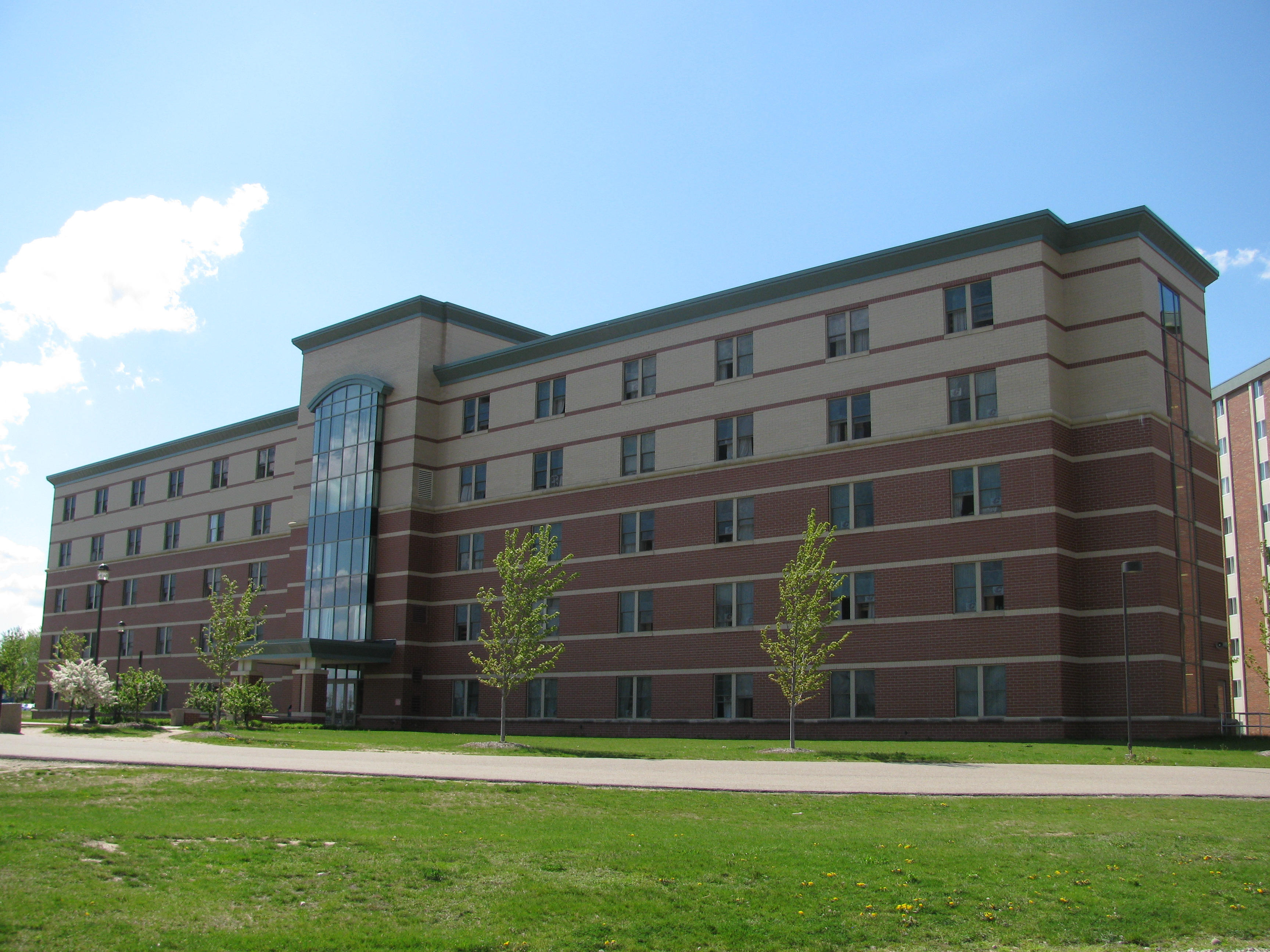 This is a picture of CMU's Kulhavi hall, taken by me.